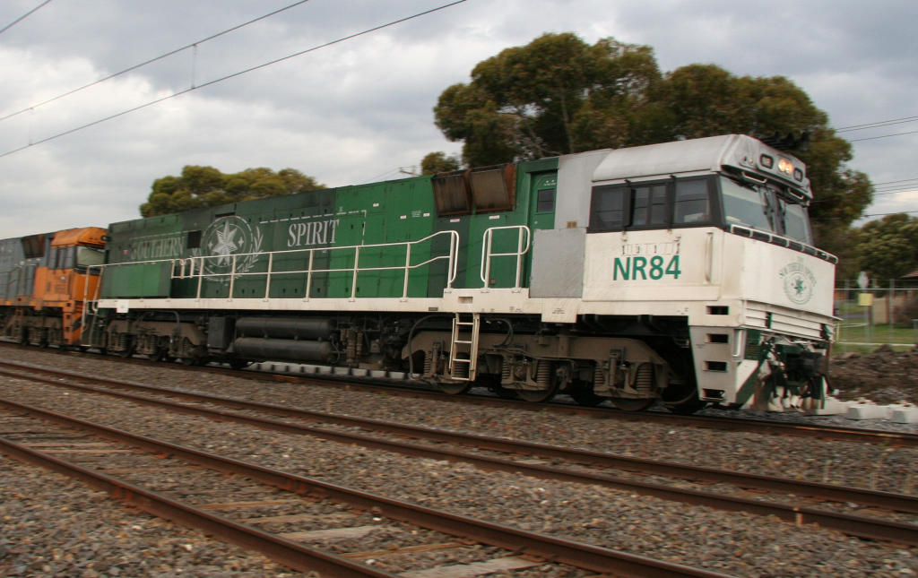 The Southern Spirit liveried NR class diesel locomotive NR84 bound for Melbourne at Coolaroo, Victoria